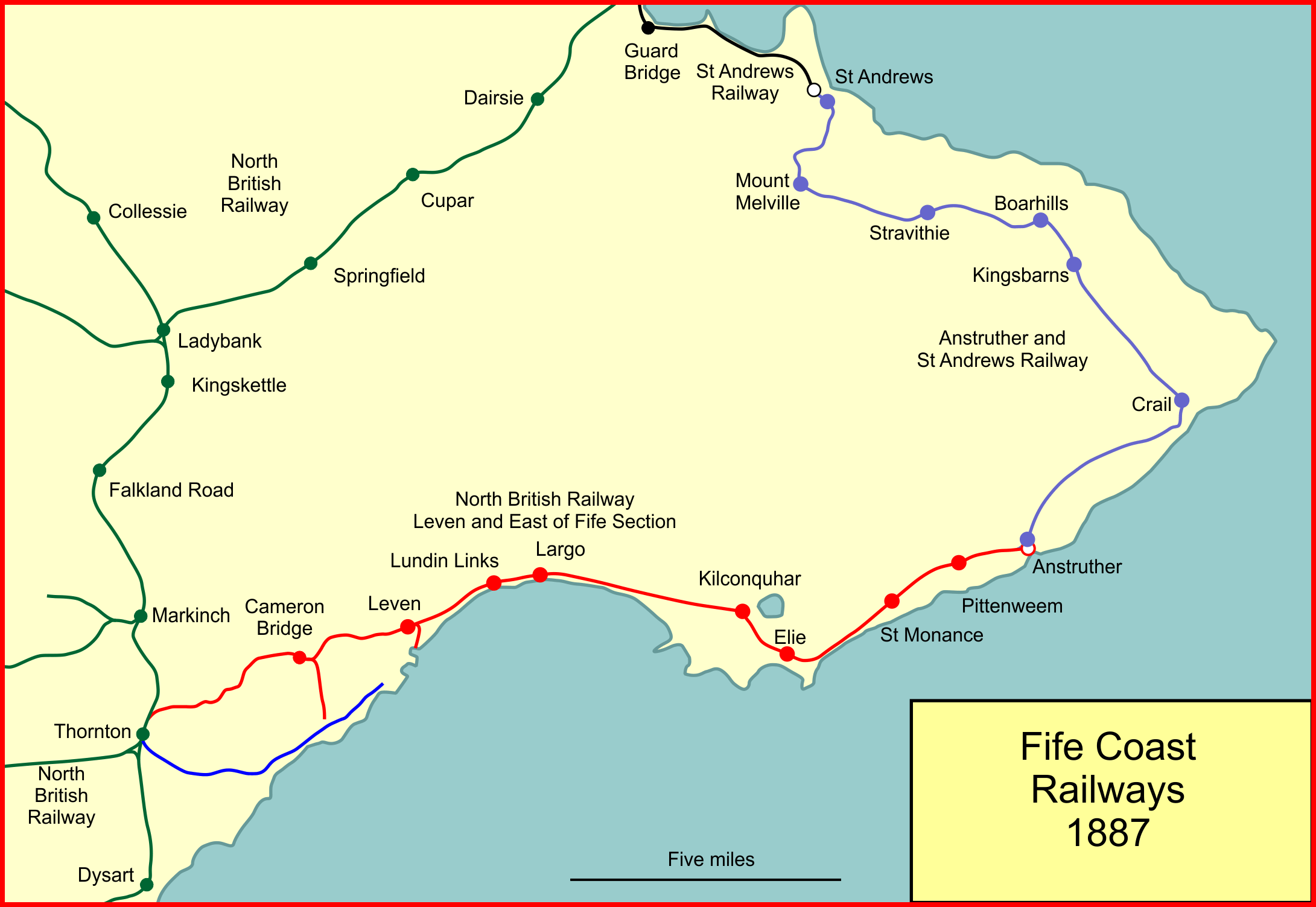 System map of the railways of the Fife Coast, Scotland, in 1887